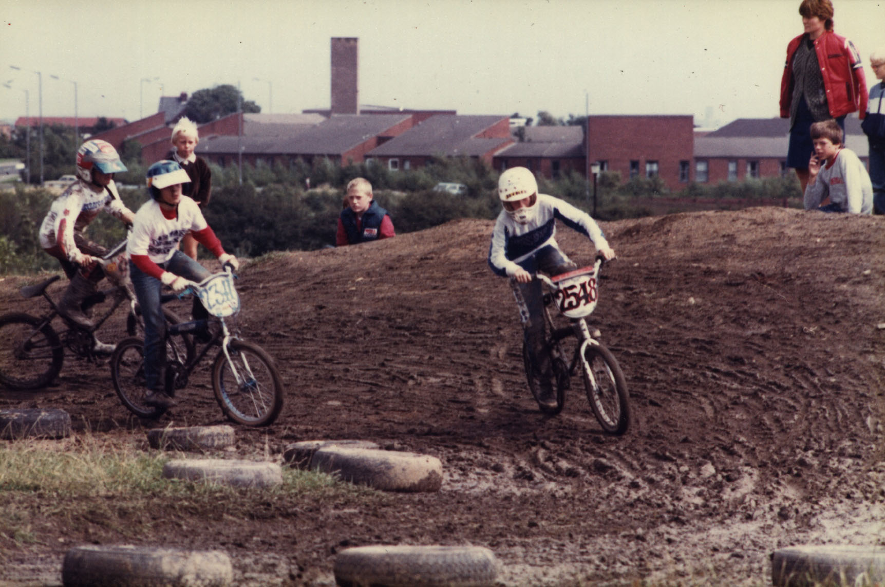 This is a photograph of a Local BMX Park in Washington, UK. The photograph was taken at some point in the 1970's. Reference: 5417/151 This collection of images has been assembled in support of the Washington Heritage Festival 2013. The celebration of Washington brings together a variety of different themes. Washington is a Town in the City of Sunderland, Tyne & Wear. It is traditionally associated with Coal Industry, and notably known as the home of the Washington Family, ancestors of the First President of the United States George Washington. However, in 1964 Washington was designated a New Town and drastically changed. With the introduction of new industry such as the Nissan Car Factory Washington experienced a huge redevelopment in both its economy and community. These Photographs are taken from the Records of the Washington Development Corporation; held at Tyne & Wear Archives. The records document this change in industry, landscape and community in Washington between 1964 & 1988, and consist of many photographs. For more information on the Washington Heritage Festival, 21st September 2013 please click (Copyright) These images are Crown Copyright. We're happy for you to share these digital images within the spirit of The Commons. Please cite 'Tyne & Wear Archives & Museums' when reusing. Certain restrictions on high quality reproductions and commercial use of the original physical version apply though; if you're unsure please